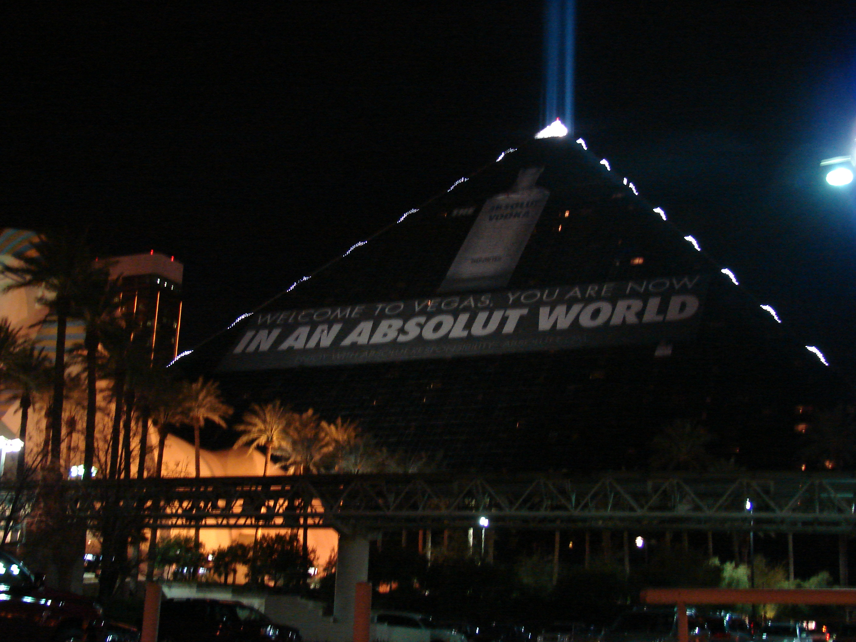 Luxor. Location: Nevada, Las Vegas